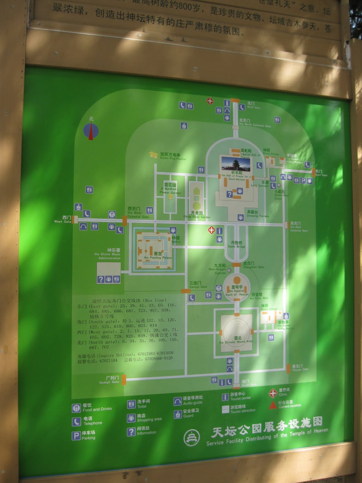 Temple of Heaven